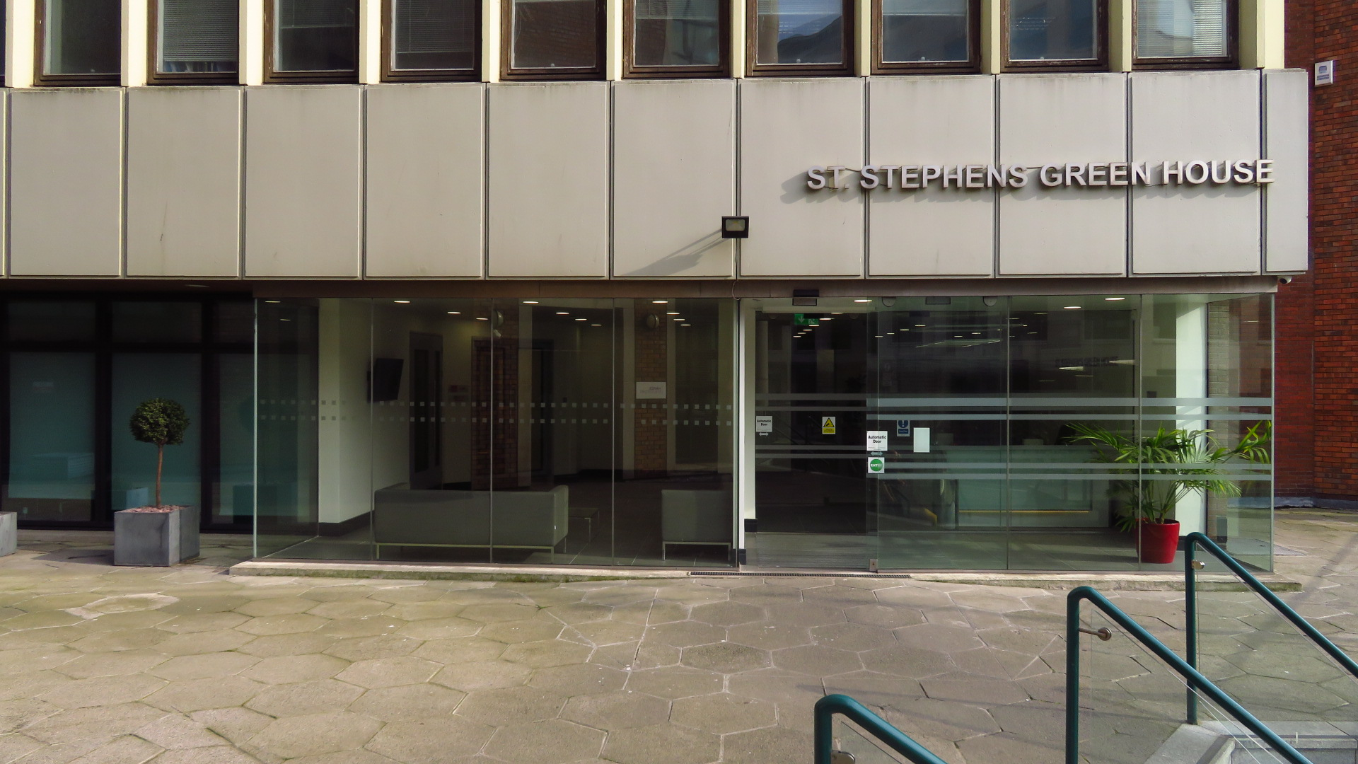 St. Stephen's Green House on Earlsfort Terrace in Dublin. It is the former headquarters of Cómhlucht Siúicre Éireann (the Irish Sugar Company). The building also housed the International Cinema in the 1960s, and the Irish Film Theatre in the late 1970s and early 1980s.